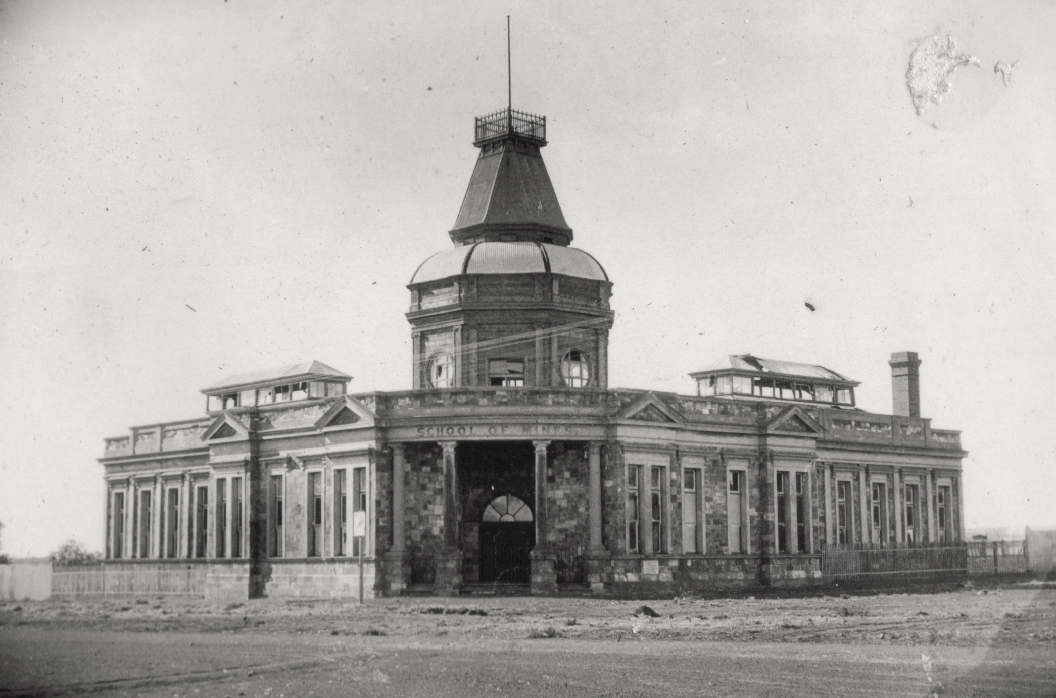 School of Mines (burnt down 1929), Coolgardie, Western Australia.